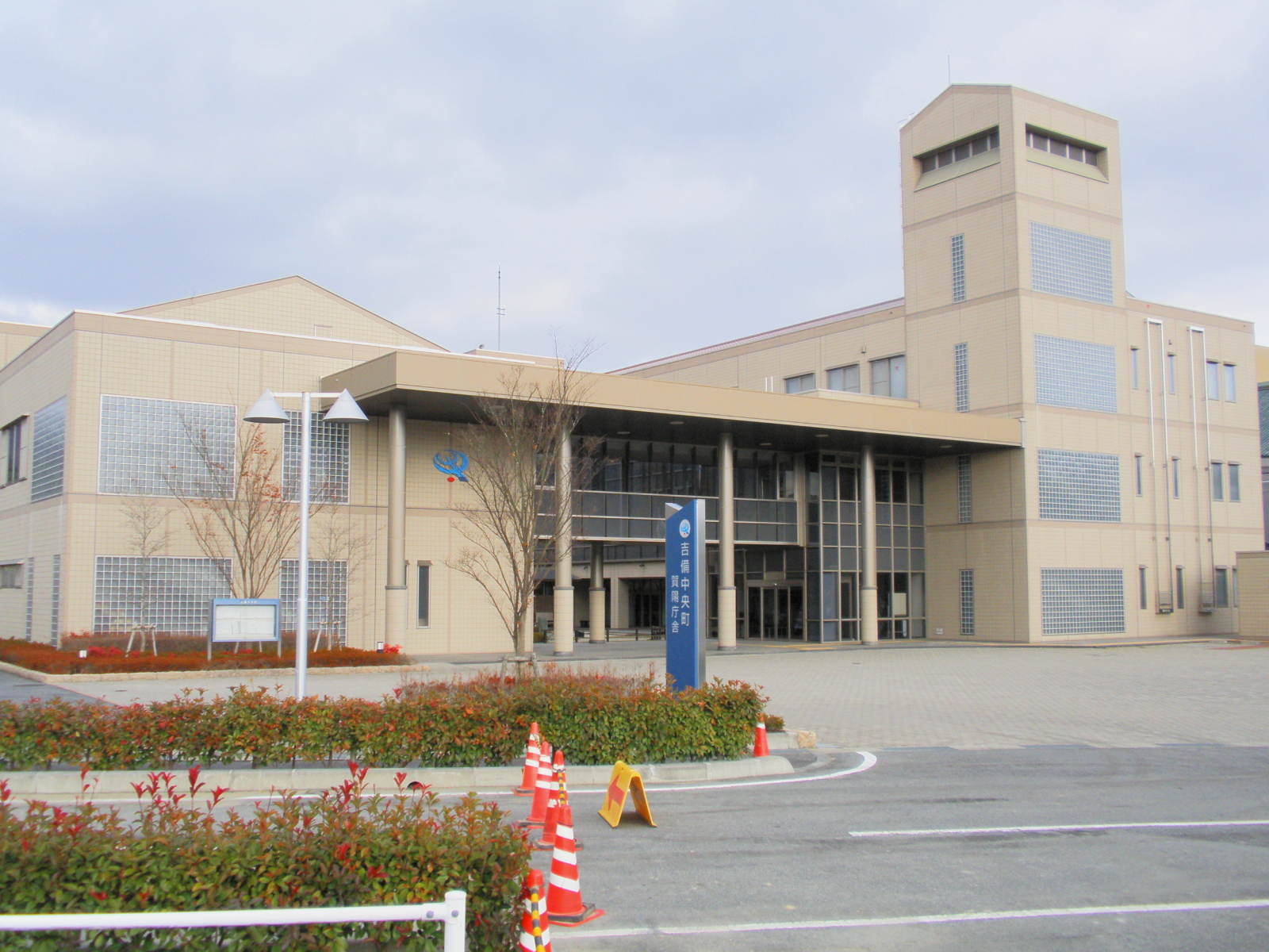 Kibichūō town office (Former Kayō town office)